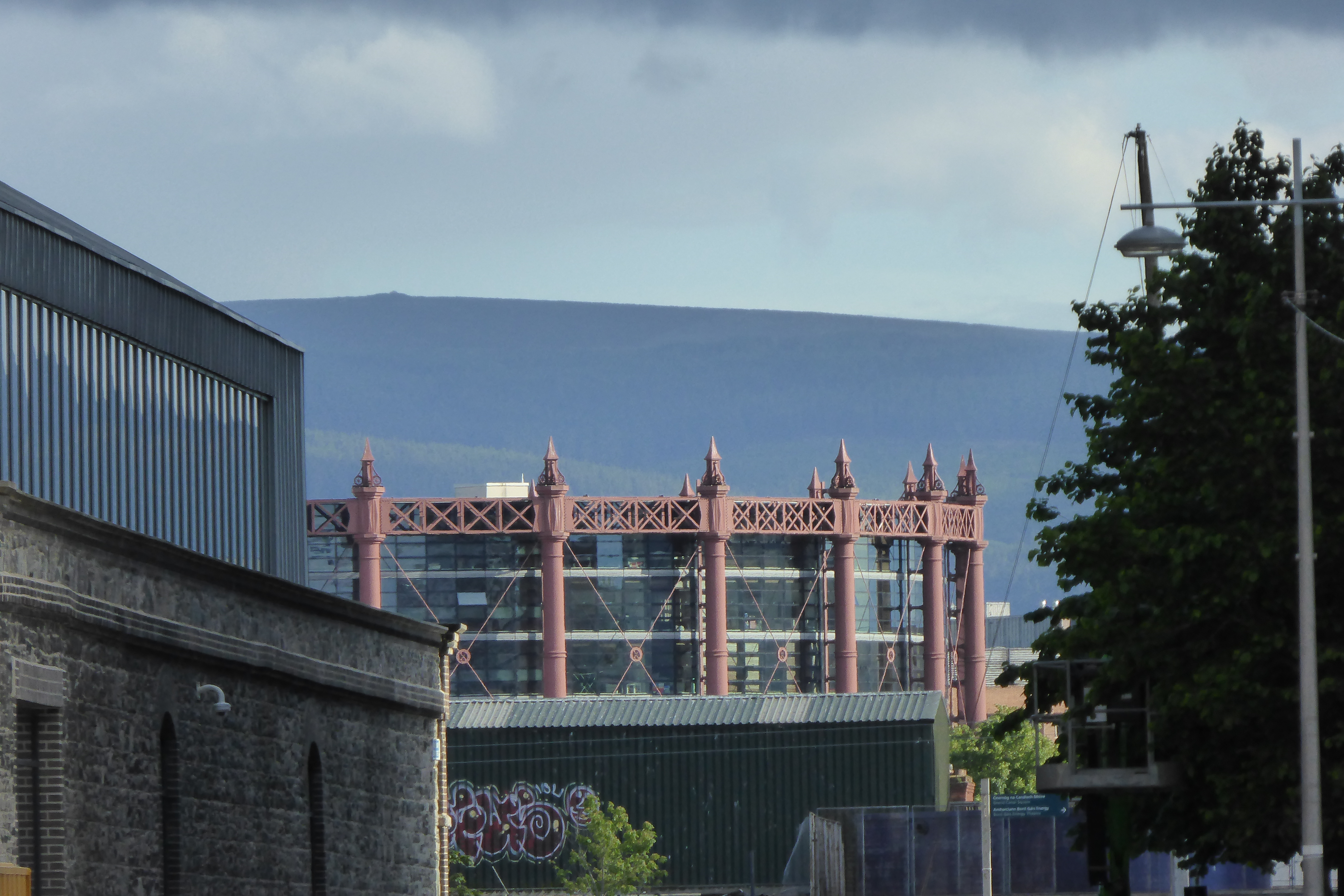 The Gasworks apartments in South Lotts Road, Dublin 4 is build around an old gasometer